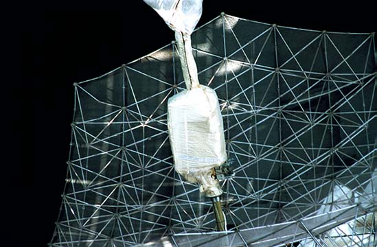 Space Station Mir - A view of the Travers RADAR antenna on the newly-launched Priroda module during STS-79.